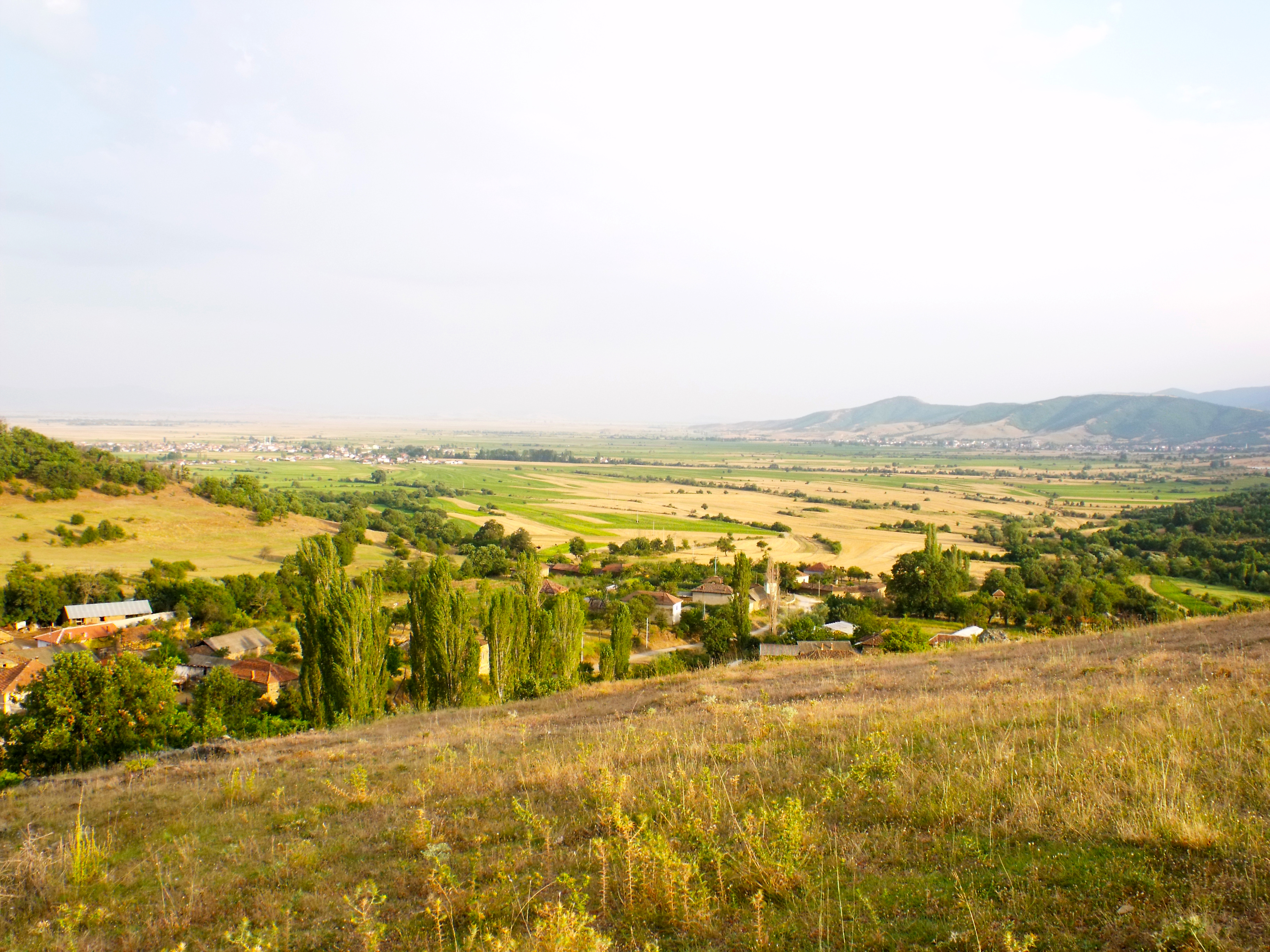 Village of Koshino - The southern part